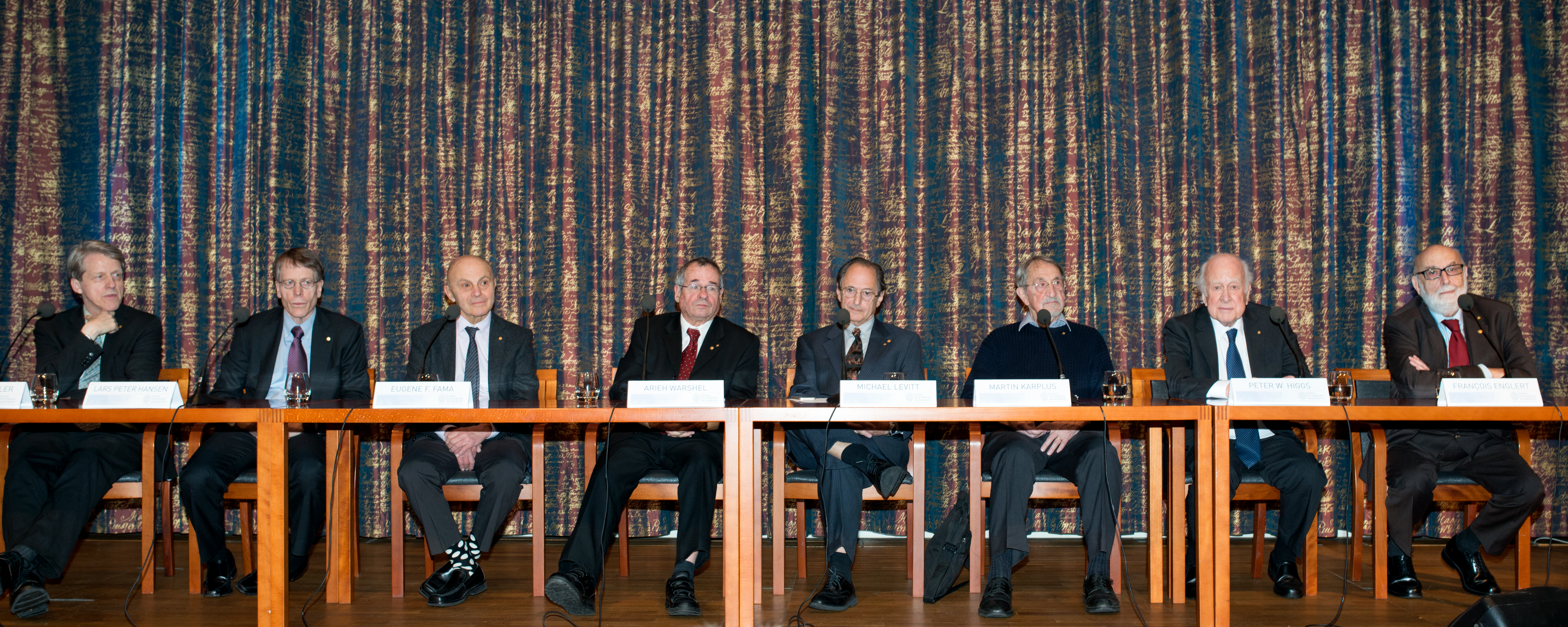 Nobel Laureates 2013 press conference at the Royal Swedish Academy of Sciences in December 2013